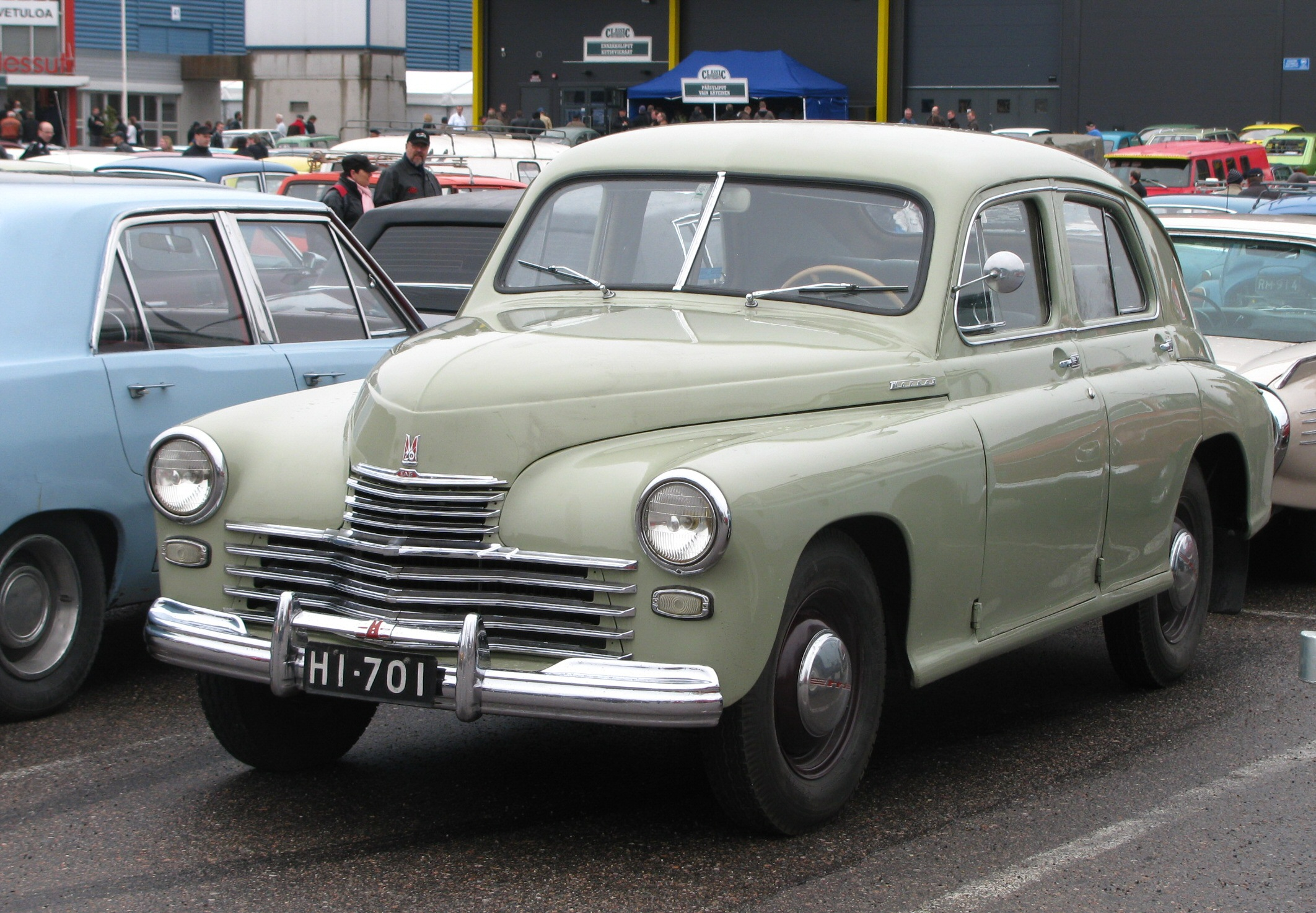 Pobeda (GAZ-M20), Classic Motor Show parking lot in Lahti, Finland.